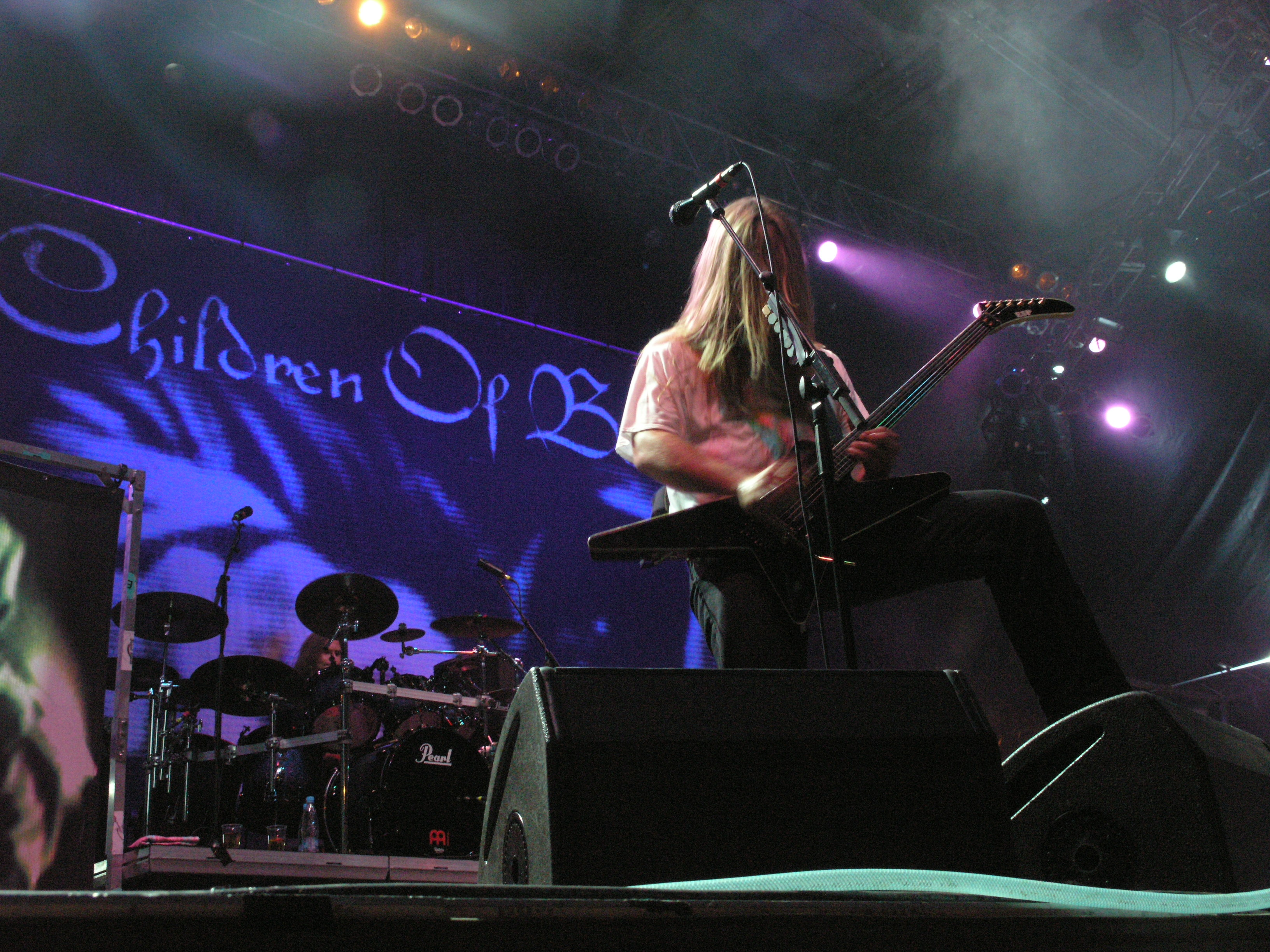 Music band Children of Bodom during Masters of Rock 2007 festival